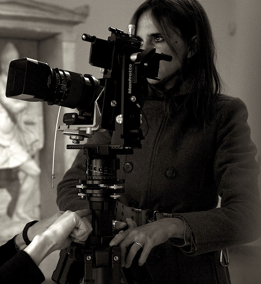 Giorgia Fiorio, shootings backstage